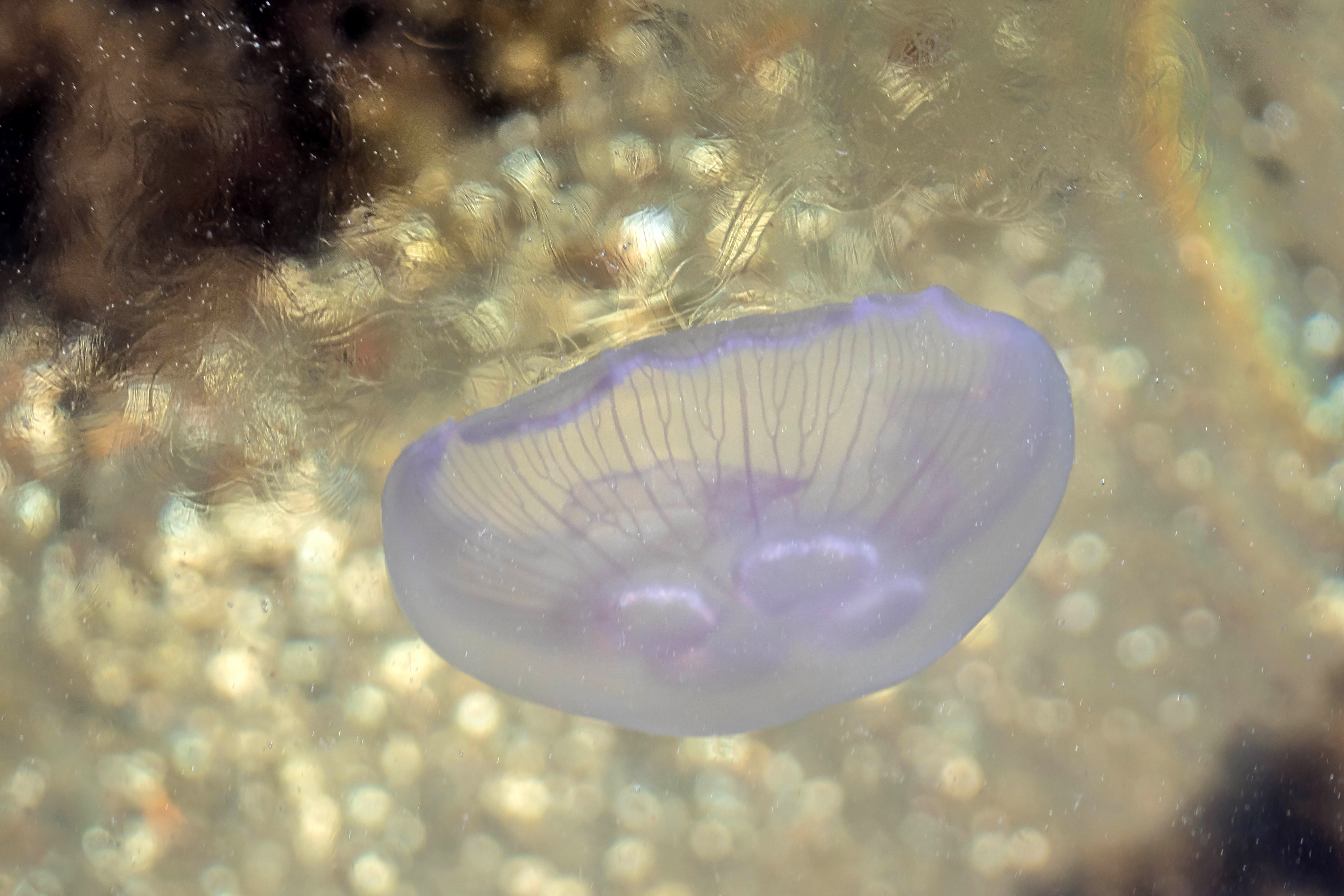 Moon jellyfish (Aurelia aurita) disturbing the top water layer of Gullmarn fjord at Sämstad, Lysekil Municipality, Sweden. The photo was taken on a calm, sunny morning after a rain, so it's likely that the layer is warmer water with some freshwater added. In this case that would make a thermocline coincide with a halocline and resulting in a very thin but visible pycnocline. This difference in density and the altered refractive index is what makes the water look "oily". It's a quite small and young jelly, about 5–6 cm (2.0–2.4 in) in diameter.